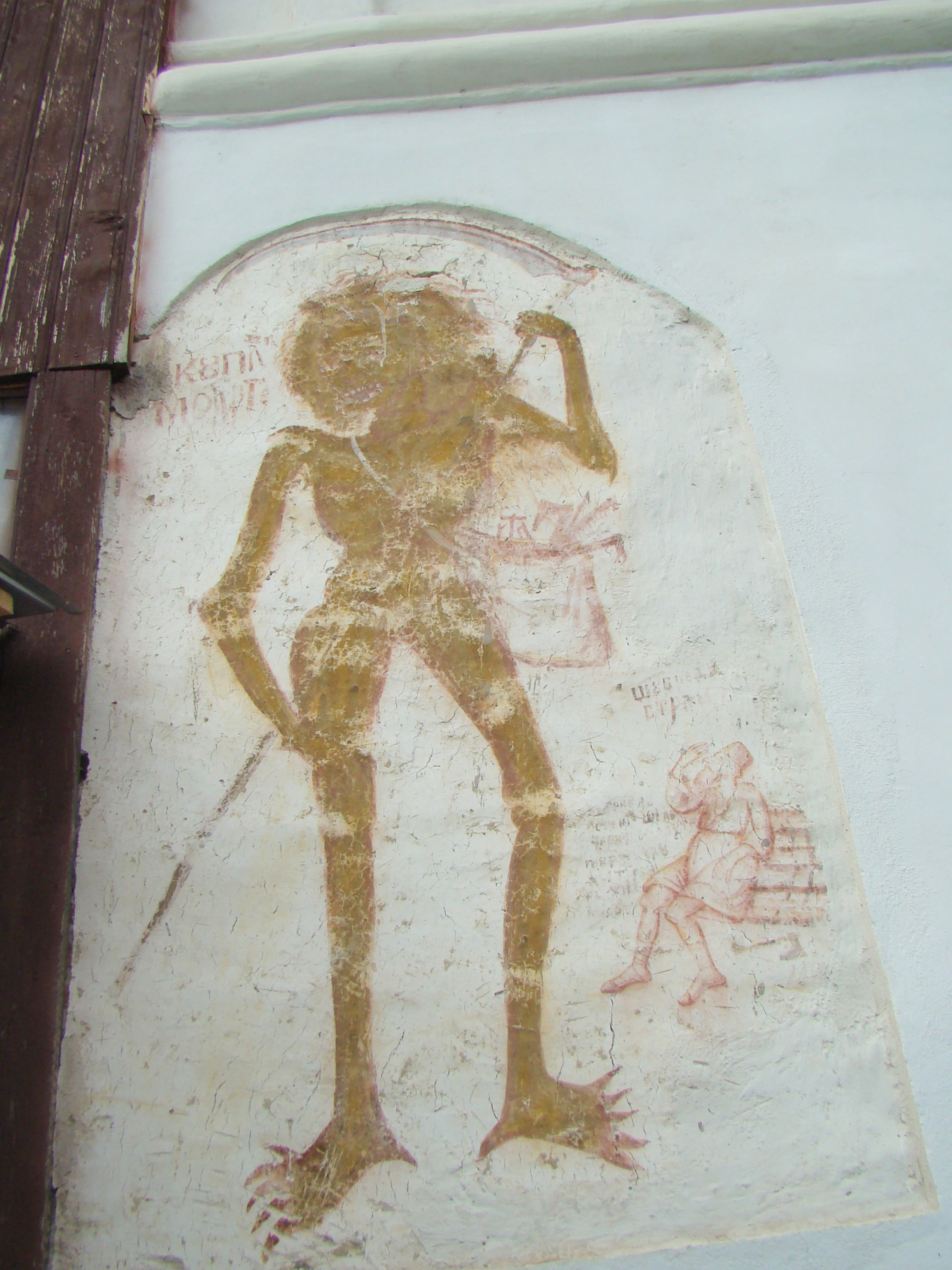 All Saints' church in Râmești, Vâlcea county, Romania